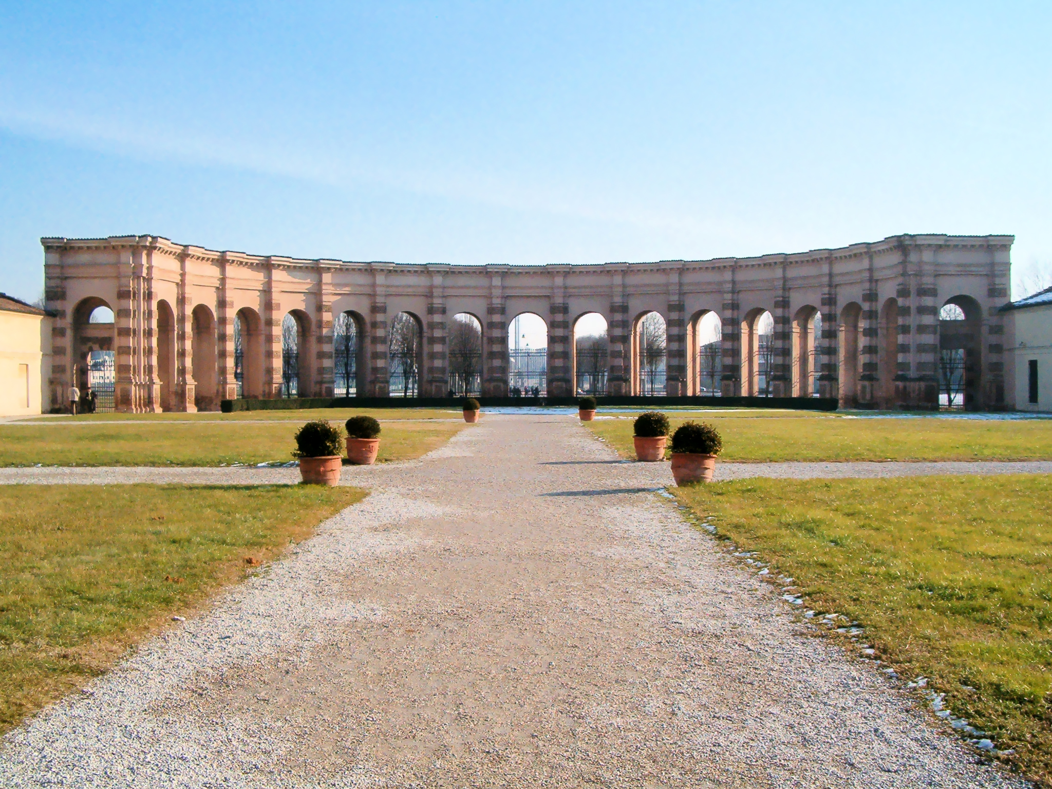 Palazzo Te in Mantua, by Giulio Romano.